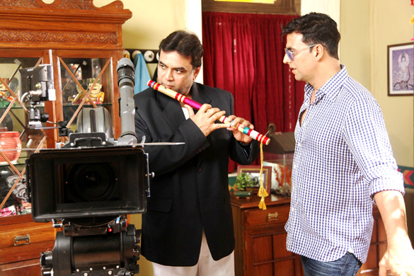 Film's lead actor Paresh Rawal (in black) along with his co-star Akshay Kumar on the sets of the 2012 film Oh My God!